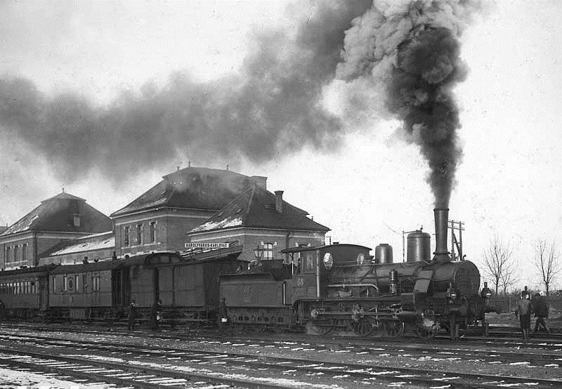 Train in Karlovac, Croatia, 1890s